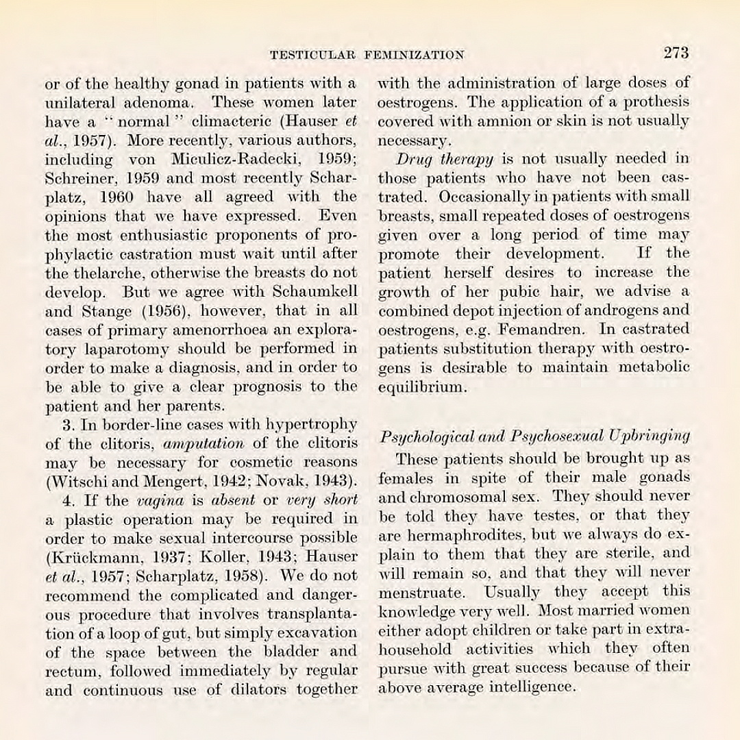 Licence to Lie and to Mutilate: Standard treatment of Androgen insensitivity syndrome AIS in 1963 - Image of: Hauser, G.A., Testicular Feminization. In: Intersexuality. London and New York: 1963, Academic Press. p.273. Outstanding are the "most enthusiastic proponents of prophylactic castration" and the alleged "above average intelligence" of women with XY chromosomes.